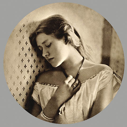 Ellen Terry at age 16 (1864). Note: This version should not be deleted as it appears to be a slightly different circular crop of the original photo (particularly noticable on the arm camera-right).